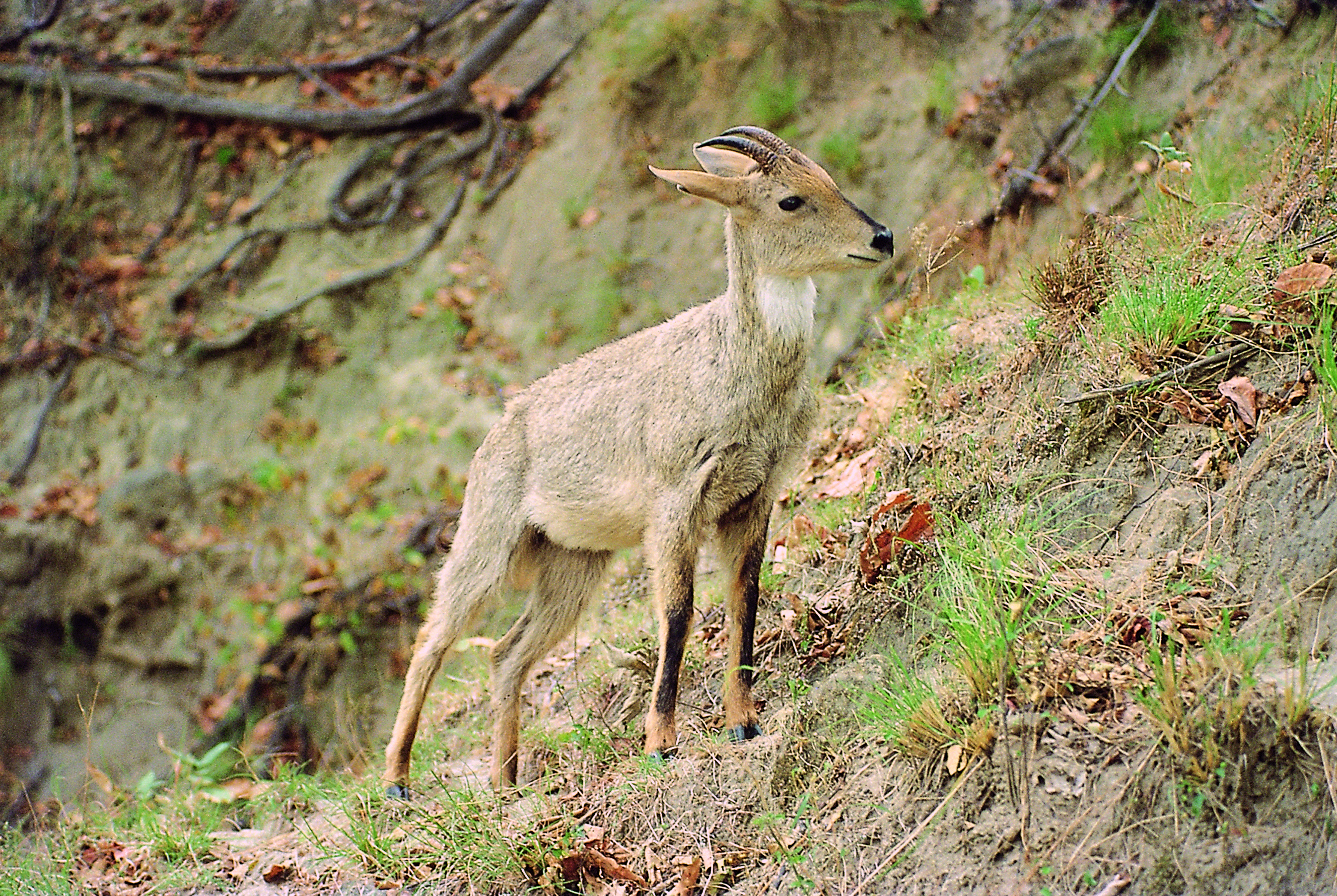 A male goral in Rajaji National Park, India